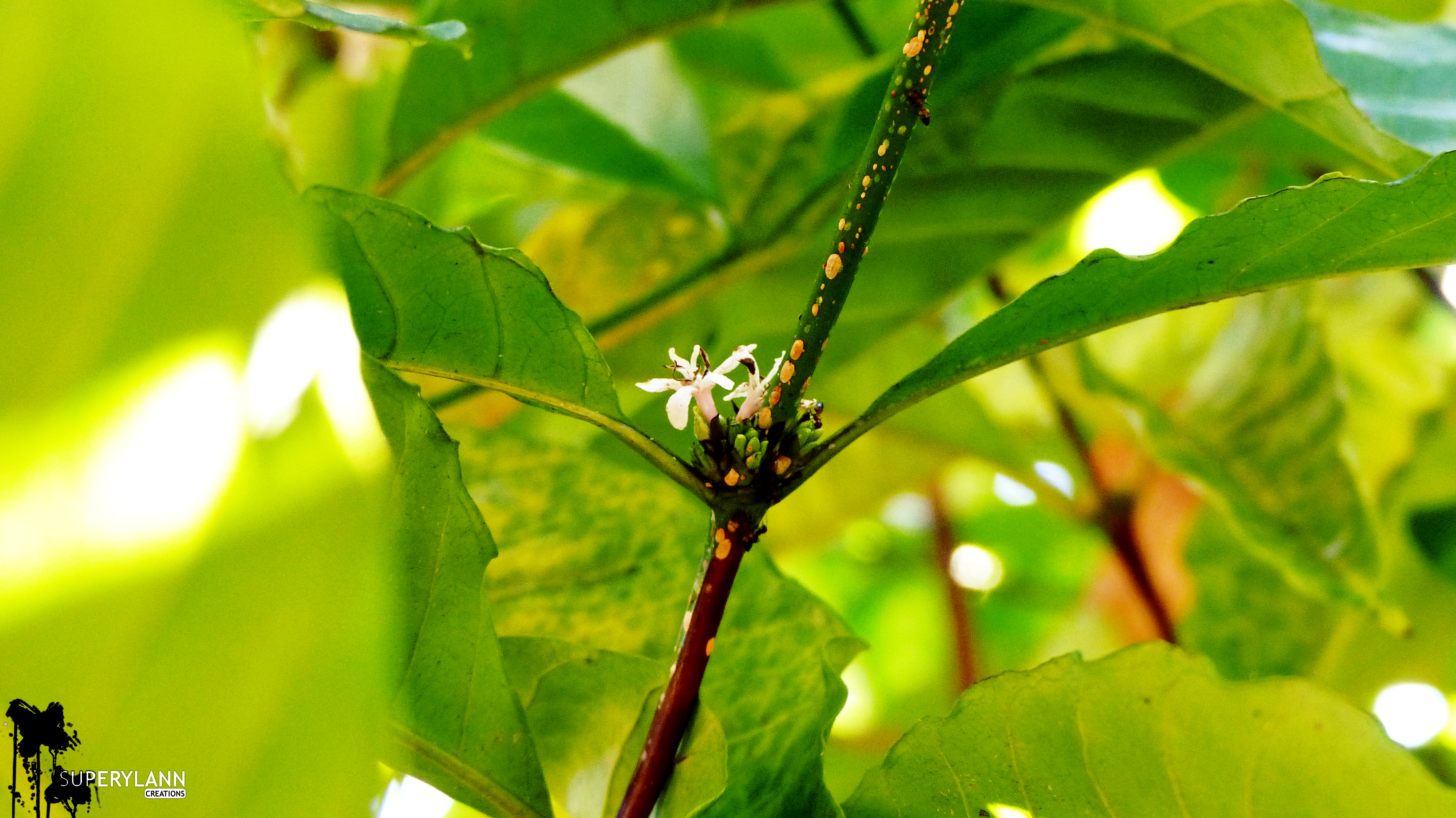 This is the flower of the coffee tree (don't know the real name) it has been taken unexpectedly by my cousin Tsiky, at Foulpointe. The details are so astonishing. This is an image of music and dance from Madagascar